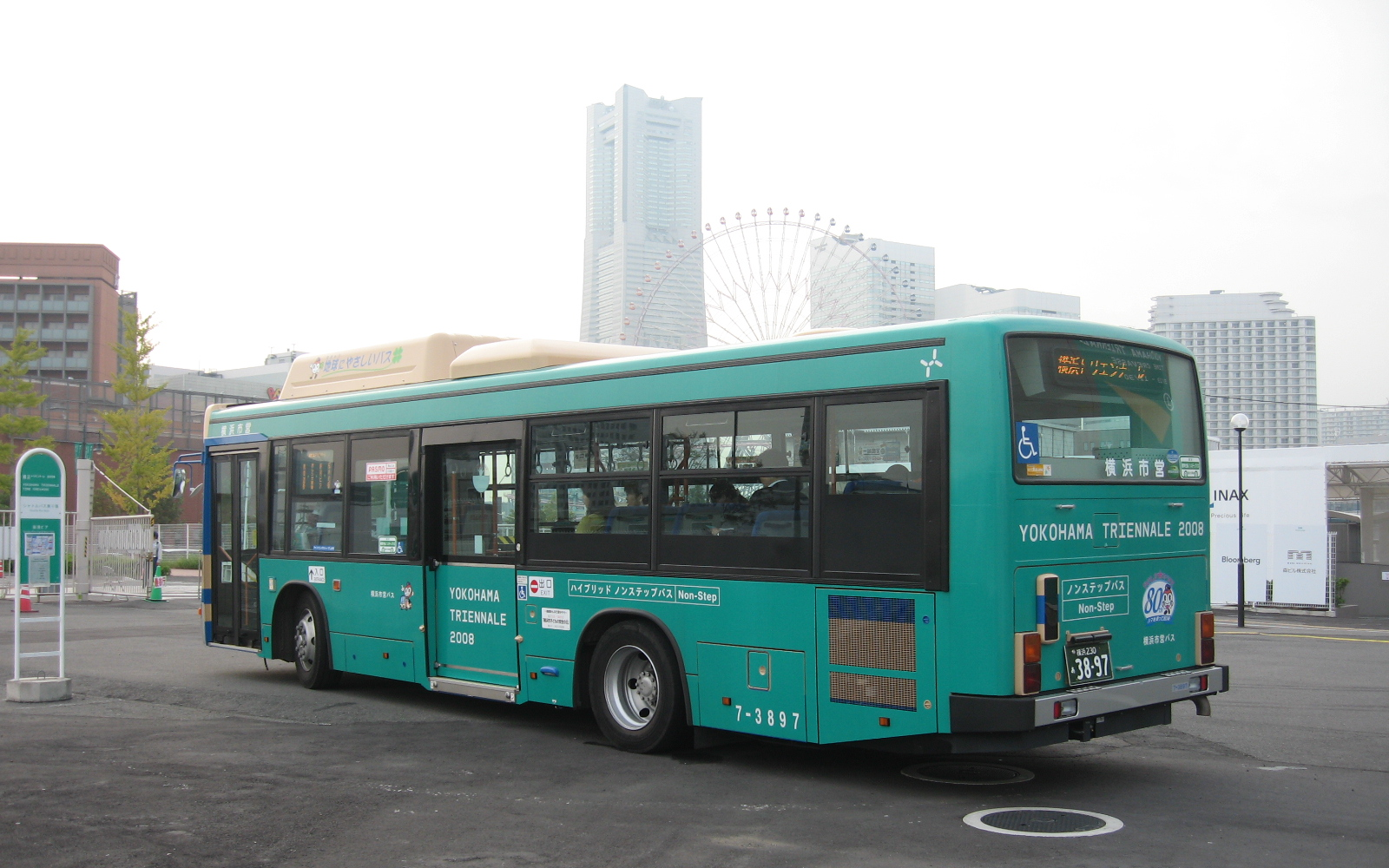 Shuttle bus to the venues of Yokohama Triennale 2008.